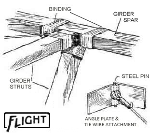 Joints on main frame of the Macfie Monoplane